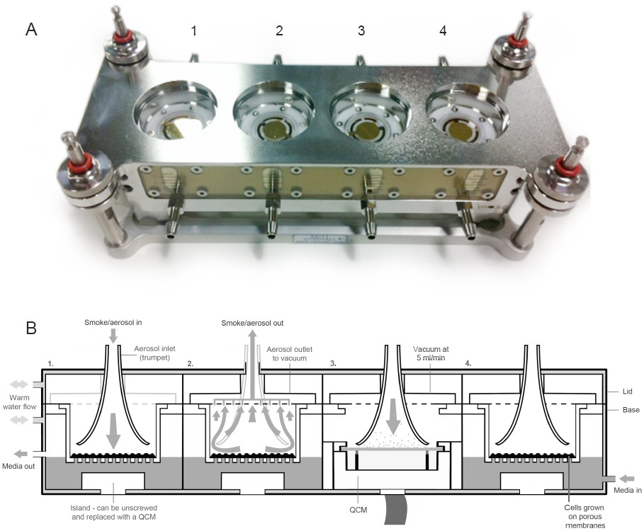 [A] Top view of the module base (lid removed) looking into the four separated wells where cell culture inserts would usually sit and be exposed to smoke, but where four identical QCM units have been installed, 1–4 (left-right). [B] A schematic cross-section of the module base and lid depicting how smoke is delivered to cell culture inserts/QCM. This illustration shows a very slight difference in the heights of the crystal surface and a typical cell exposed on a porous membrane; in our set-up the QCM is 1.5 mm higher than an exposed cell surface would be. However, the trumpet height can (and should) be adjusted to compensate for this when exposing cells and QCMs concurrently so that the gap distance is the same (2 mm in this case between crystal and trumpet). Adamson et al. Chemistry Central Journal 2013 7:50 Download authors' original image